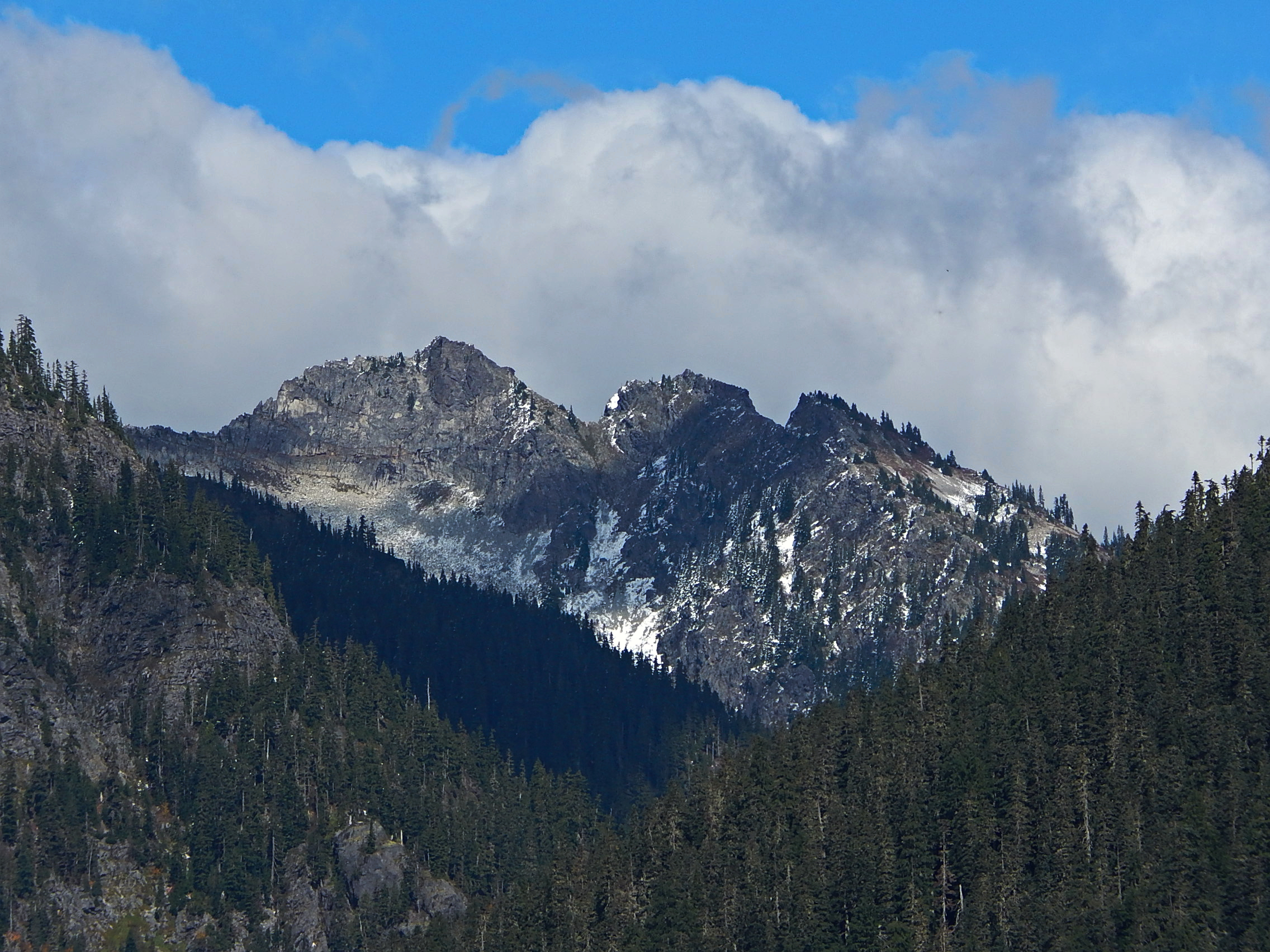 Lundin Peak seen from Snoqualmie Pass area